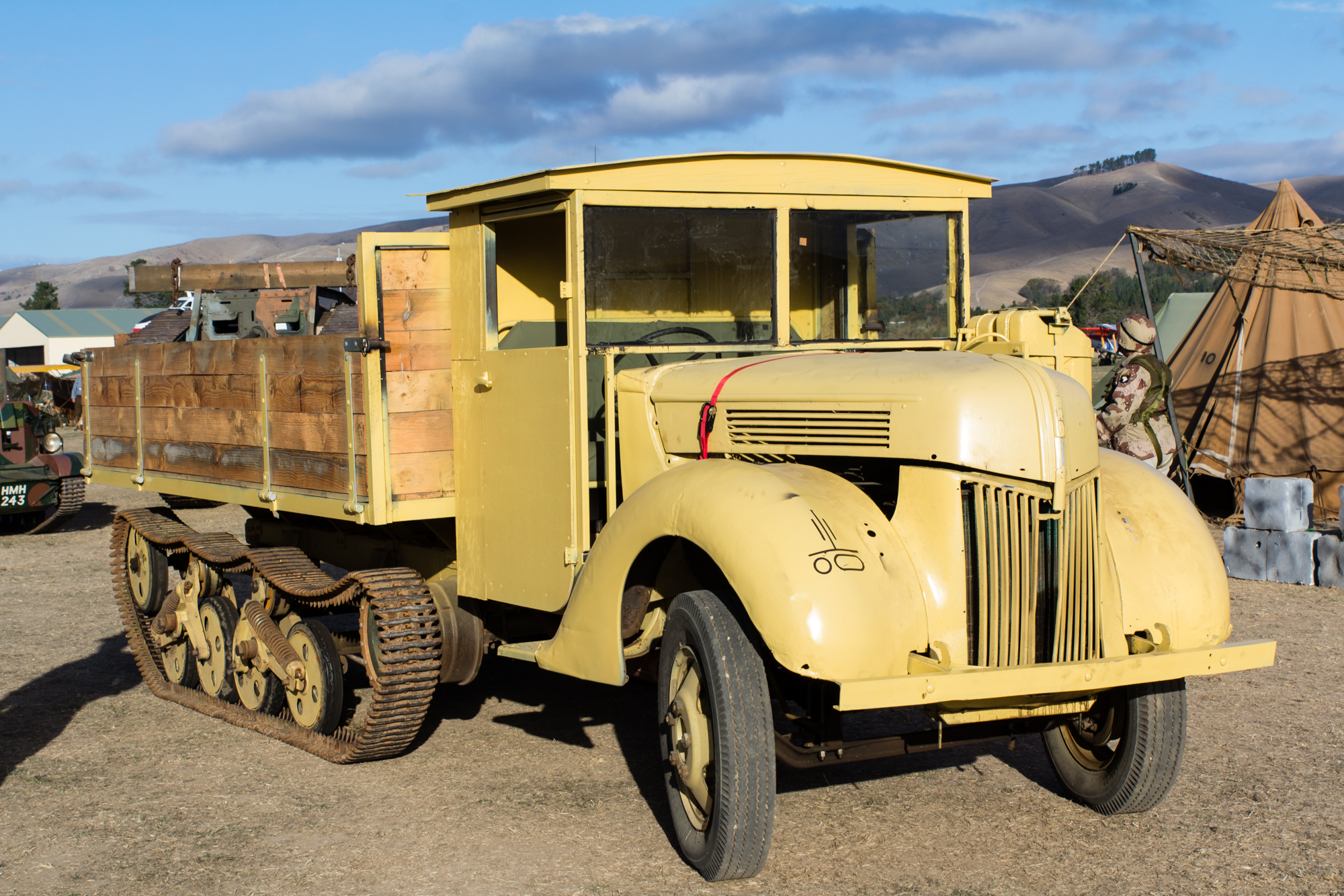 Classic Fighters 2015 - replica of German WWII Ford Maultier